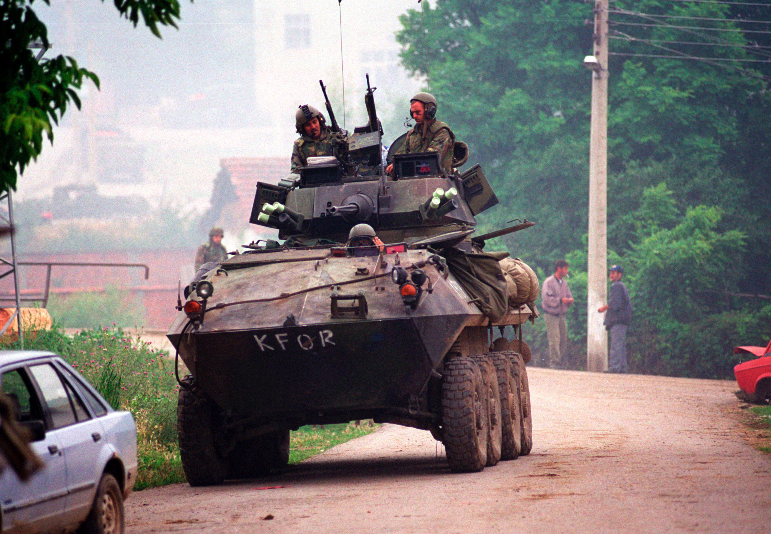 A U.S. Marine Corps Light Armored Vehicle (LAV-25) from the 2nd Light Armored Reconnaissance Battalion patrols in the village of Zegra, Kosovo, on June 27, 1999. Elements of the 26th Marine Expeditionary Unit are deployed from ships of the USS Kearsarge Amphibious Ready Group as an enabling force for KFOR. KFOR is the NATO-led, international military force which will deploy into Kosovo on a peacekeeping mission known as Operation Joint Guardian. KFOR will ultimately consist of over 50,000 troops from more than 24 contributing nations, including NATO member-states, Partnership for Peace nations and others.